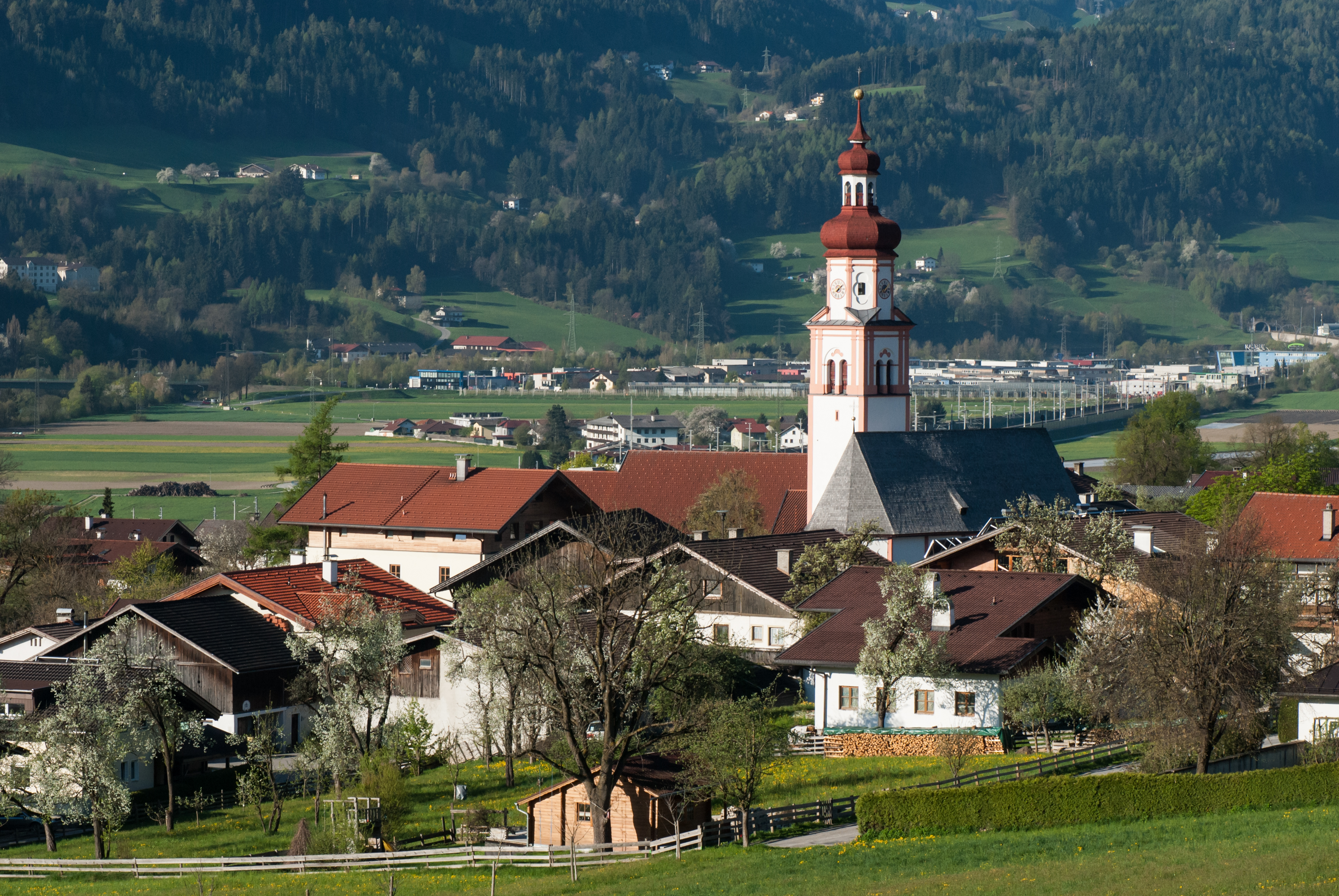 Baumkirchen seen from NE with parish church